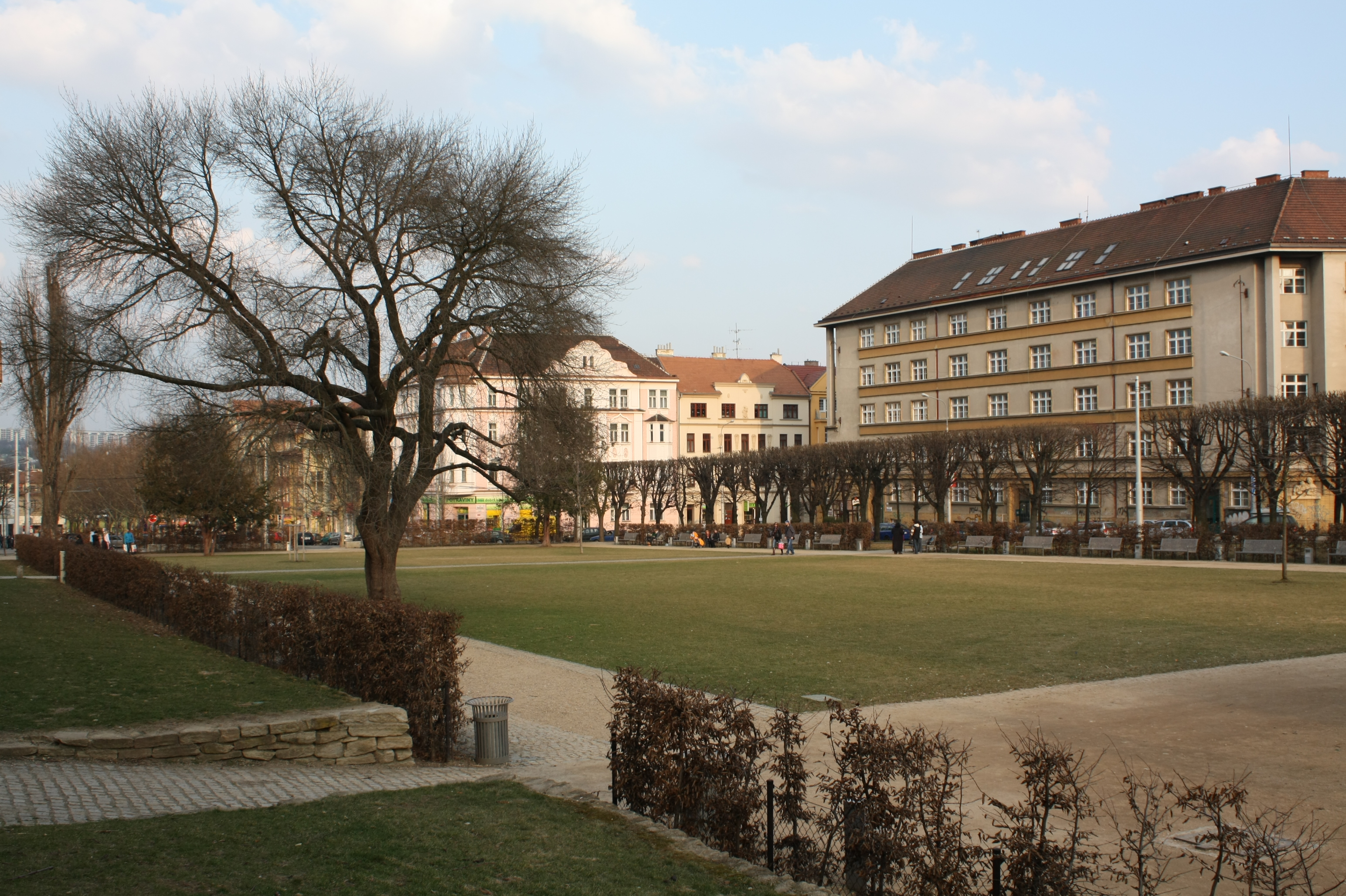 Slavonic Square (Slovanské náměstí) in Královo Pole, Brno, Czech Republic